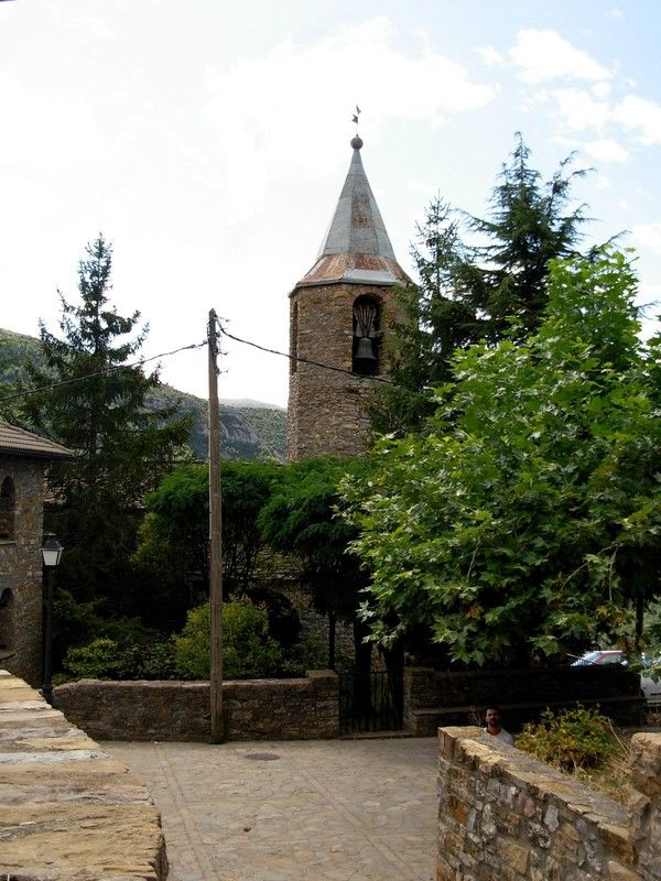 St.Andrew Church